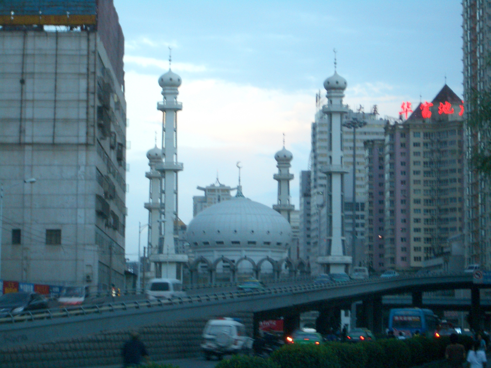 Xiguan Mosque, at the west end of Lanzhou's downtown Object location36° 03′ 35″ N, 103° 48′ 32″ E